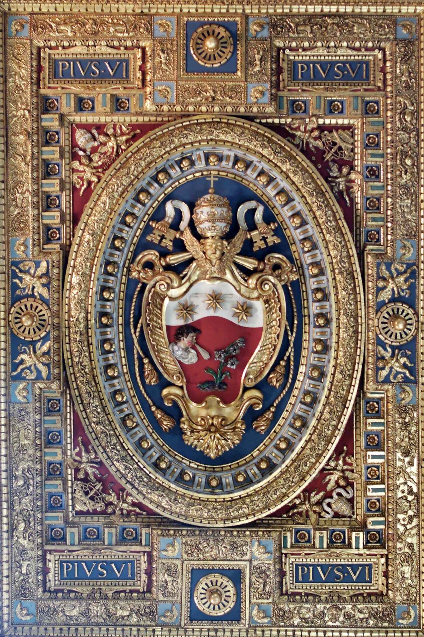 Coat of arms of Pius VI Braschi Aldobrandini. From the ceiling of the Basilica of St. John Lateran (Rome).